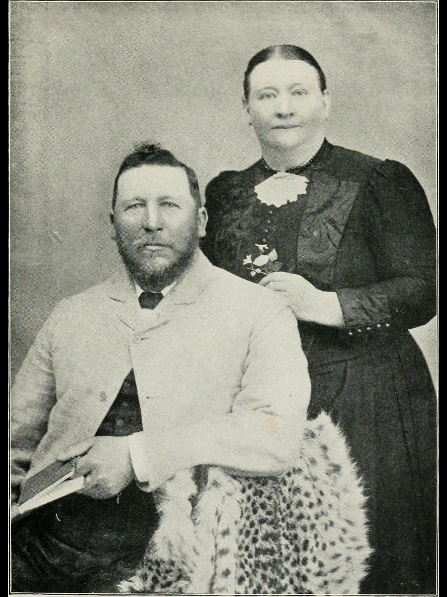 Catharina Petronella Philippina Gerhardina Smuts (née De Vries) (1847-1901) and Jacobus Abraham Smuts (1845-1914), parents of Jan Smuts (1870-1950). Photo taken by J Ribble of Paarl in 1893.